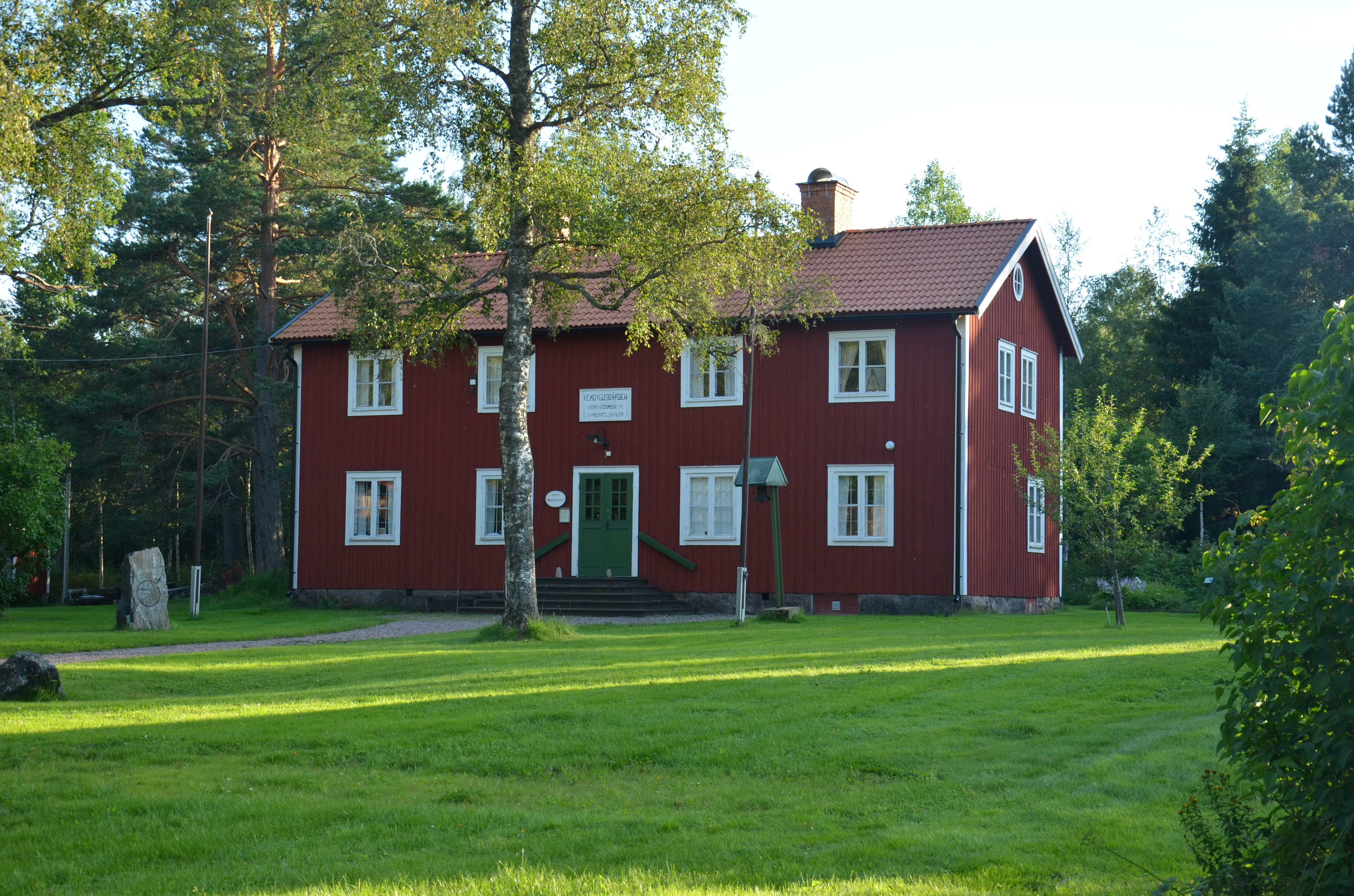 Karlbergs hembygdsgård